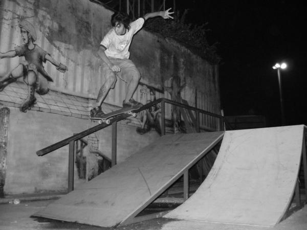 Reno, Backside 50-50 Grind. Location: Sport-X Arena (r.i.p), Kemang, Jakarta-Indonesia.